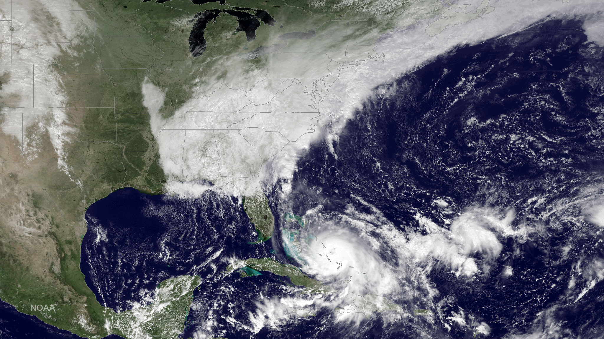 Hurricane Joaquin pounding the Bahamas and a deepening low pressure system on the U.S. east coast as seen by GOES East at 1645Z on October 2, 2015.